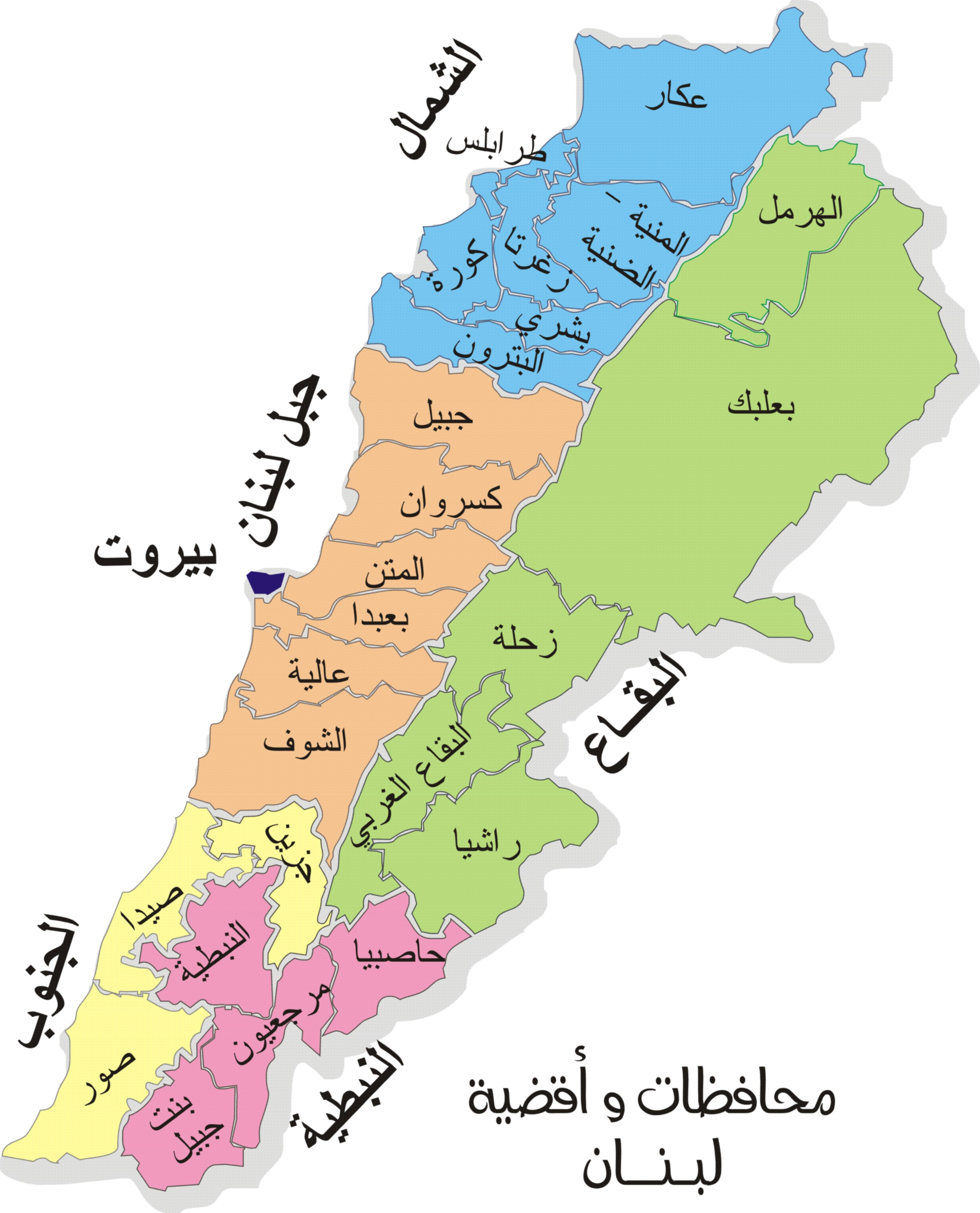 Lebanese Districts in Arabic